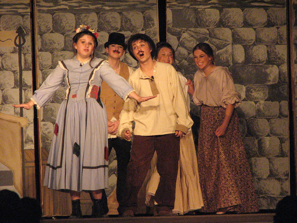 high school production of the Musical "My Fair Lady", scene "Wouldn't it be Lovely?"